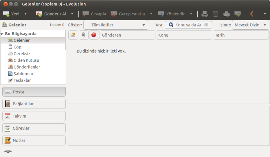 Evolution 3.6.4 screenshot on Ubuntu operation System